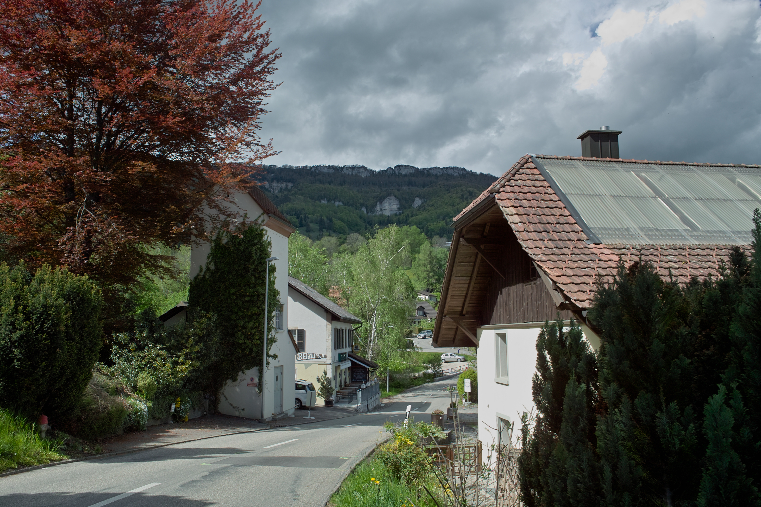 In Niederwil, community of Riedholz, canton of Solothurn, Switzerland. Distribution substation and restaurant.